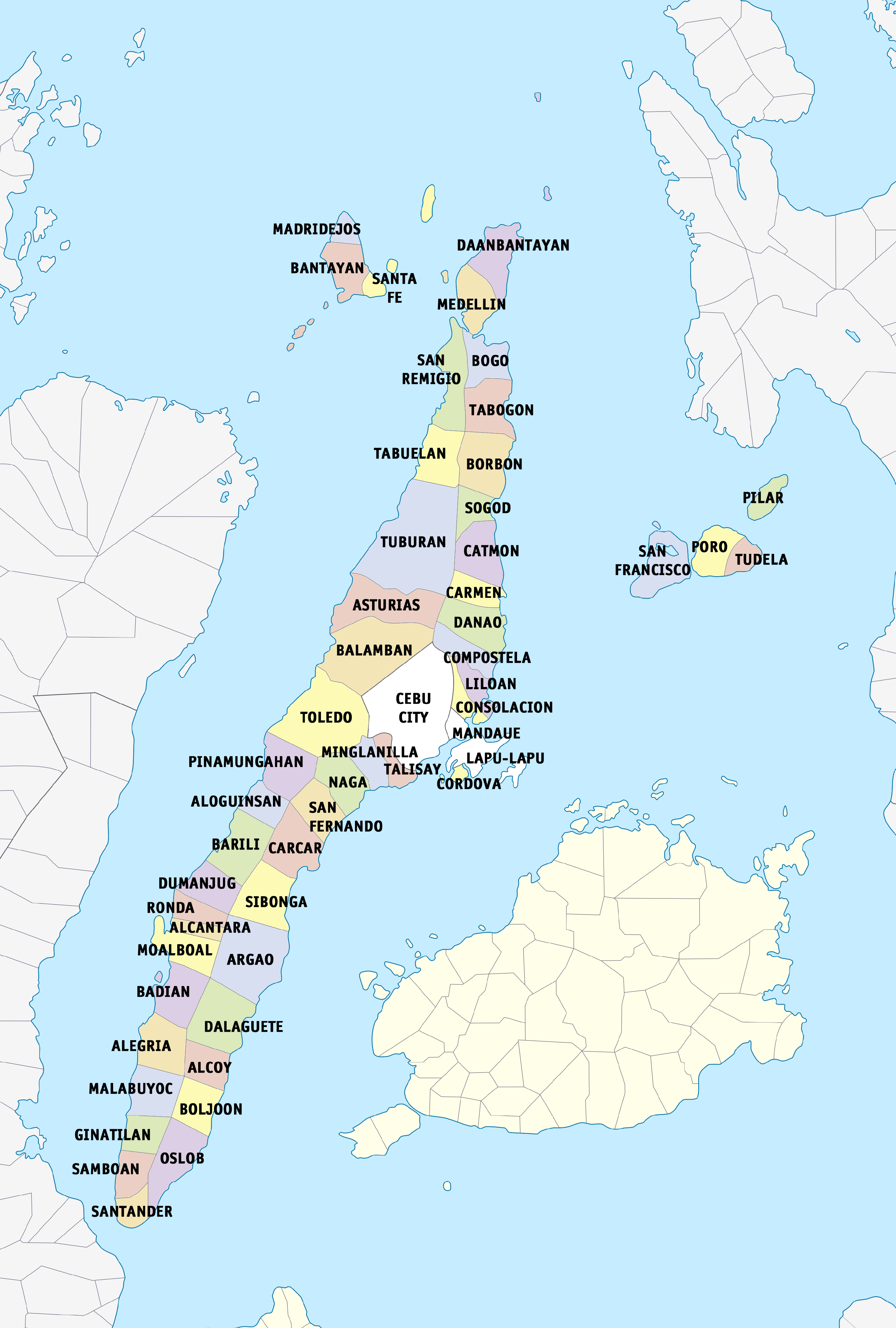 Political map of Cebu, Philippines